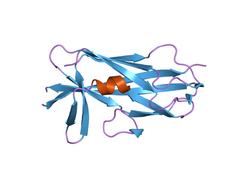 Cartoon representation of the molecular structure of protein registered with 2co1 code.